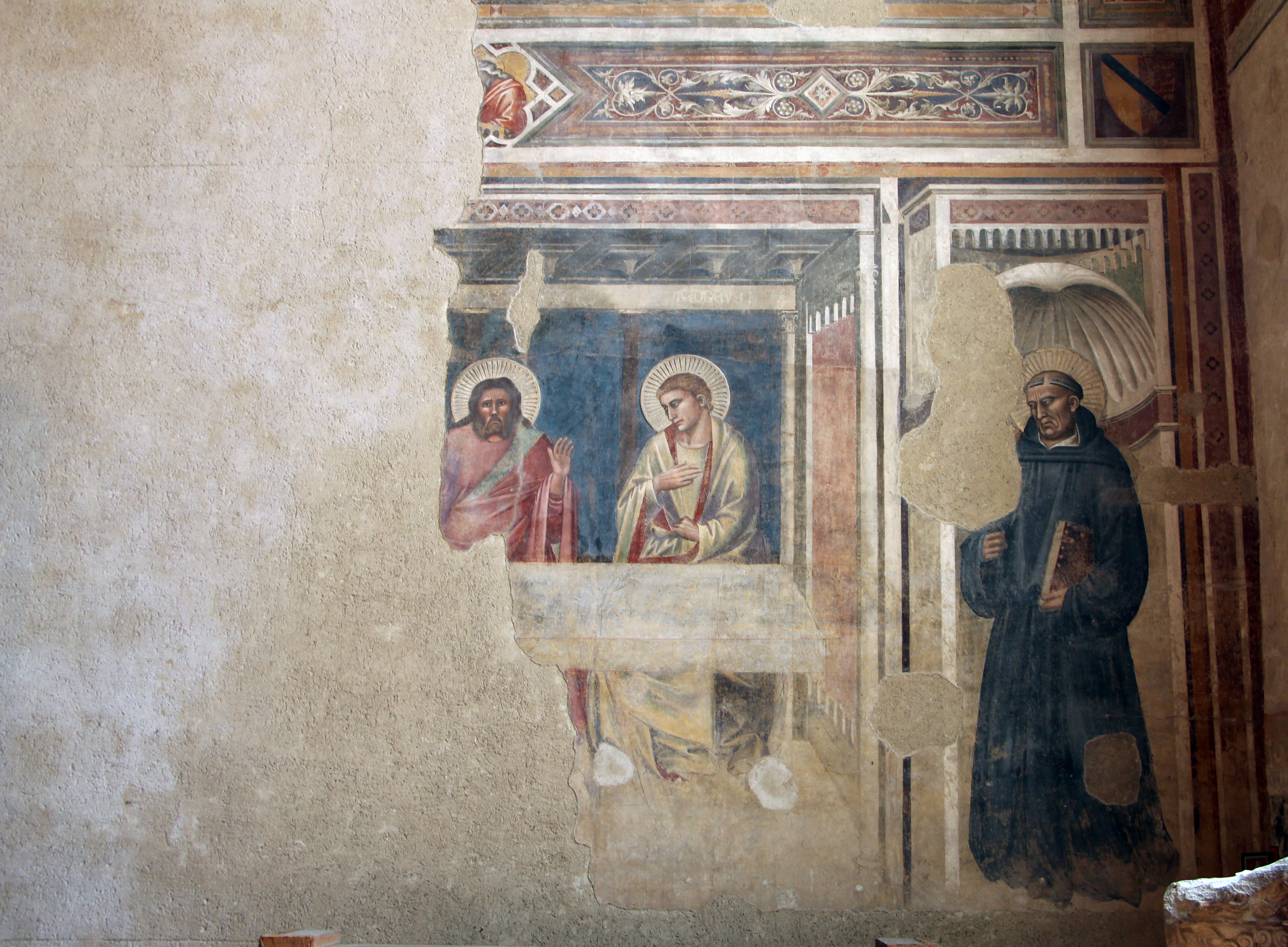 Santo Spirito refectory frescos